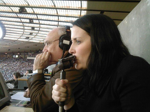 Annie McGuire Broadcast Journalist, Social Media Consultant and University Lecturer